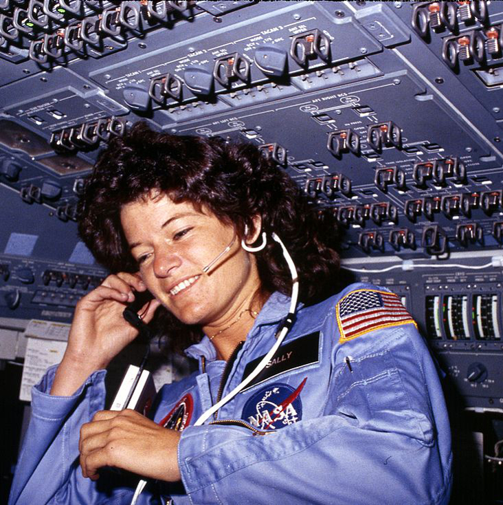 Sally Ride America's first woman astronaut communicates with ground controllers from the flight deck during the six day mission of the Challenger. National Aeronautics and Space Administration.